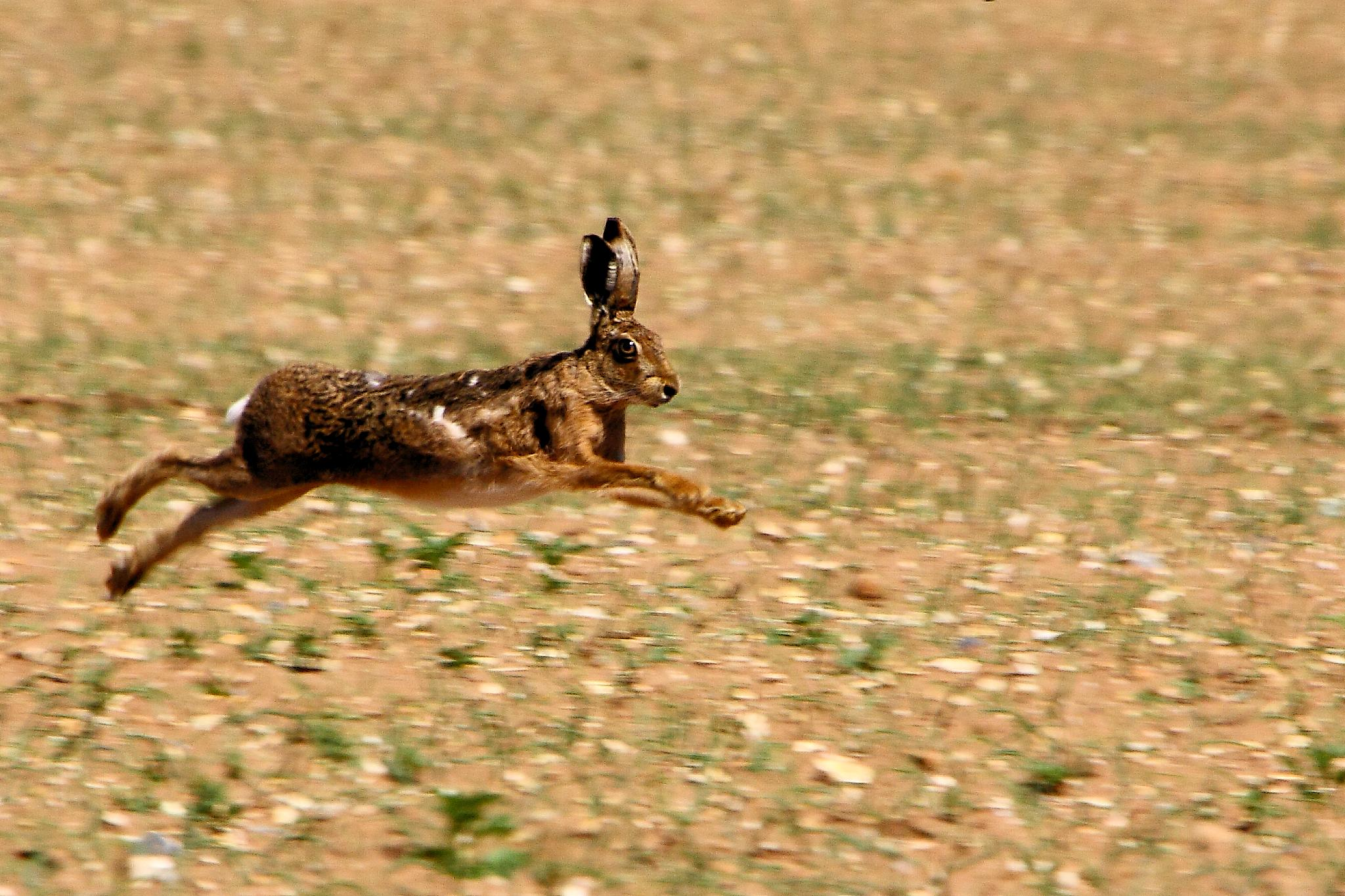 Saw this fella the other day pelting it along a farmer's field. Found out on 'Springwatch' last night that these guys can run upto 45mph ! Was a good test of my panning skills lol !